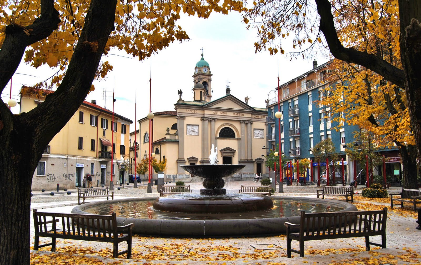 NOVA MILANESE chiesa san antonino martire piazza marconi